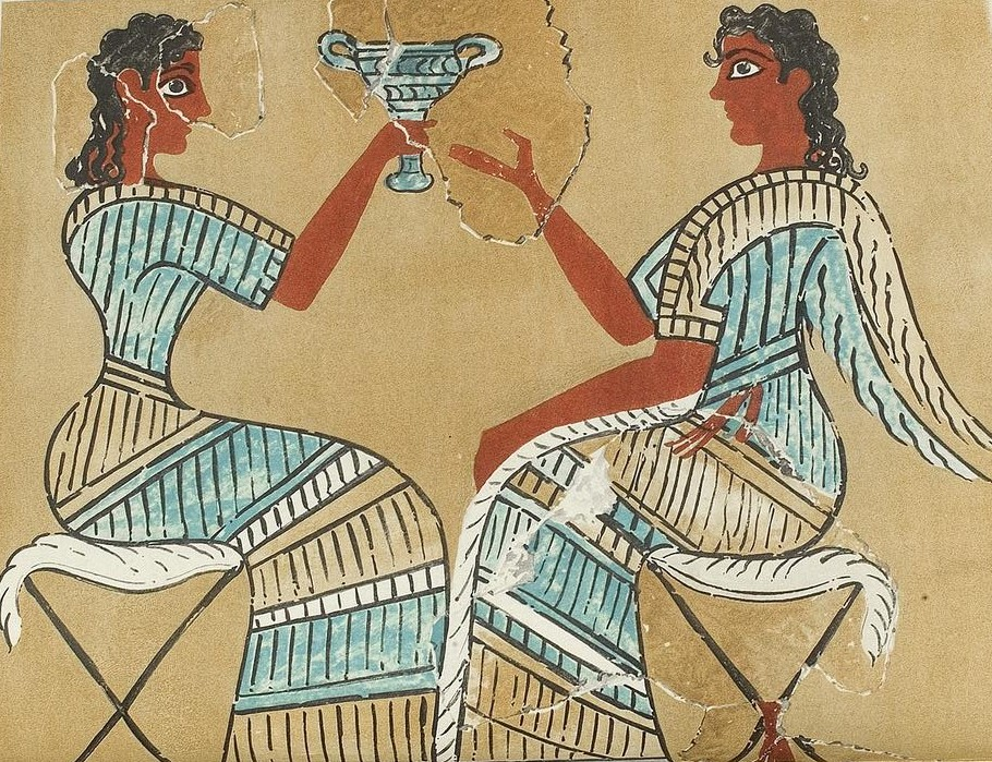 Partly-restored image from the "campstool fresco", Knossos: A. J. Evans, The Palace of Minos 4.2 (1935)